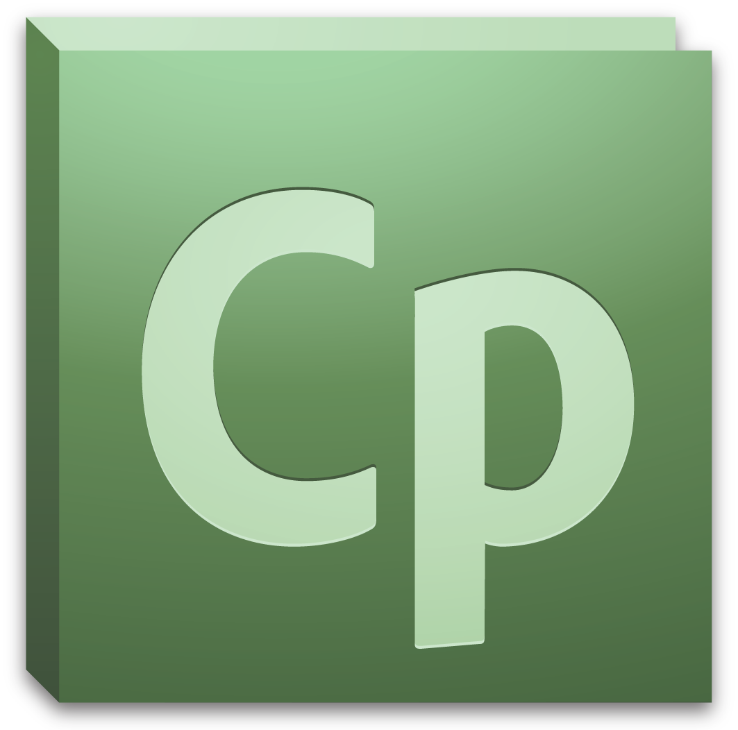 Computer icon of Adobe Captivate v5.0